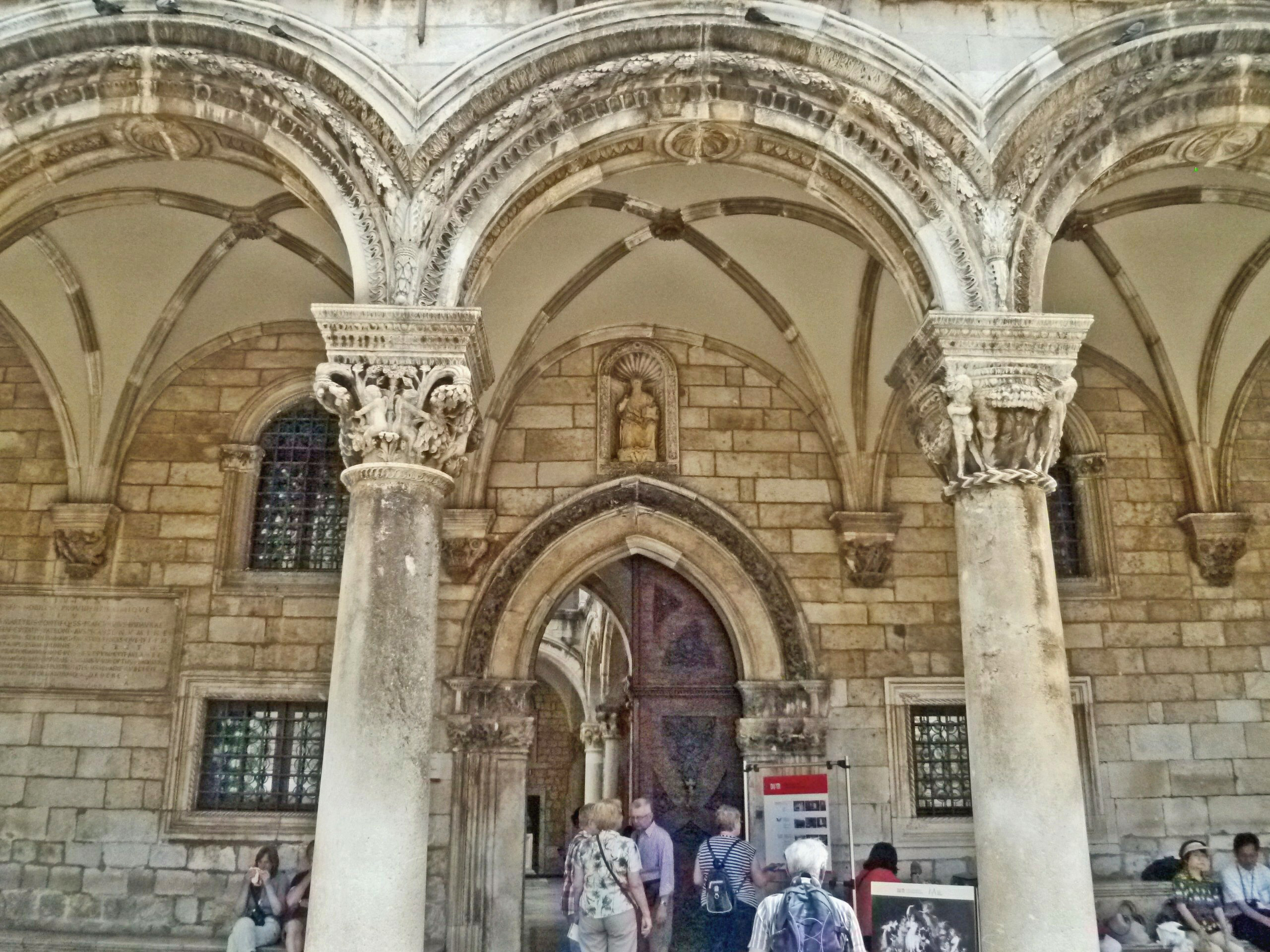 Entrance to the Rector's palace, Dubrovnik, Croatia